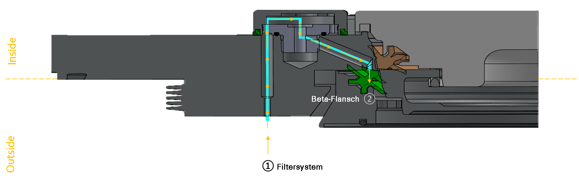 Sectional model of an alpha port